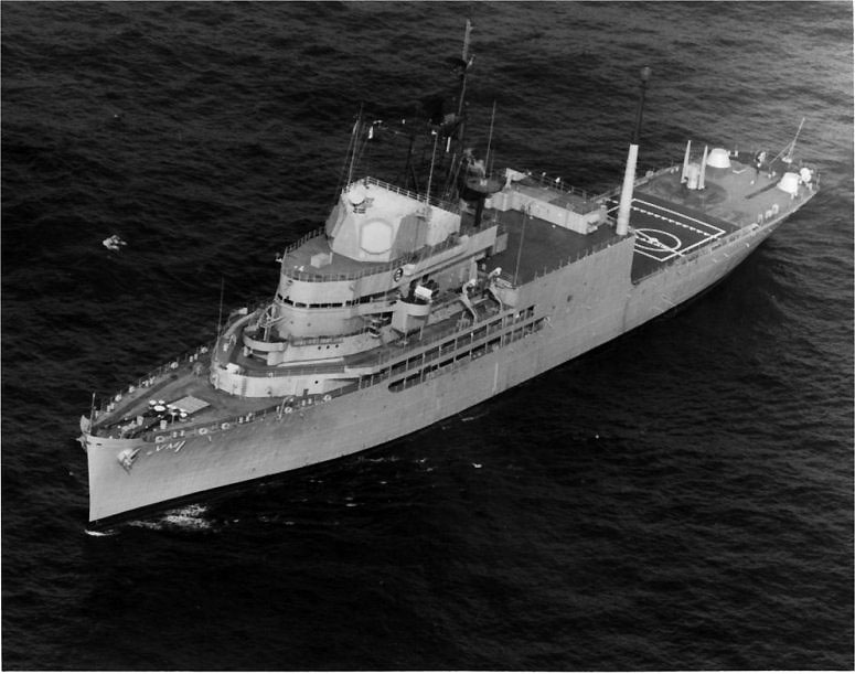 The U.S. Navy missile test ship USS Norton Sound (AVM-1) underway in the 1980s, after the Mk 41 vertical launching system was installed forward.